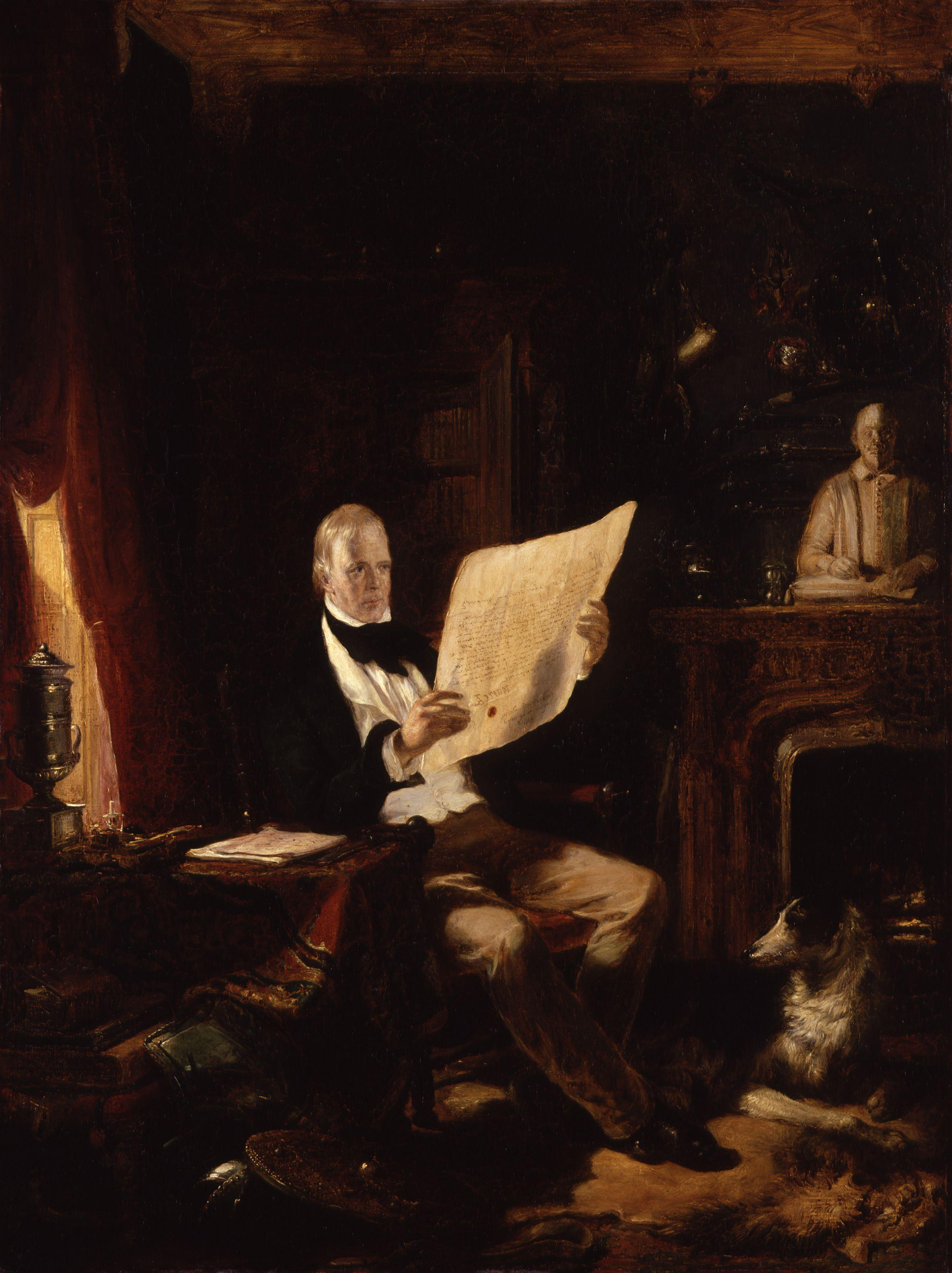 Sir Walter Scott, 1st Bt, by Sir William Allan (died 1850). All images in this batch have been confirmed as author died before 1939 according to the official death date listed by the NPG.